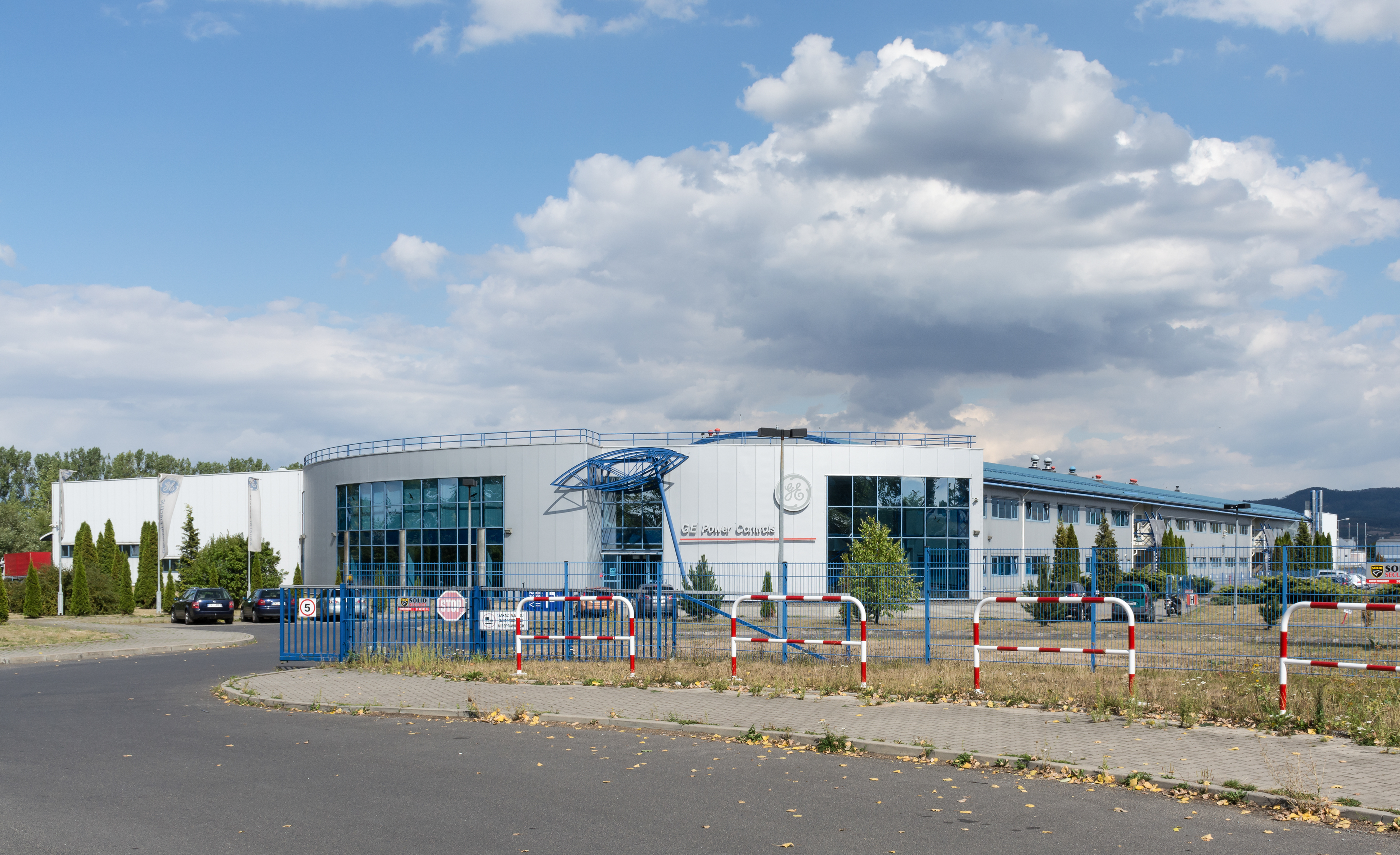 General Electric factory in Kłodzko